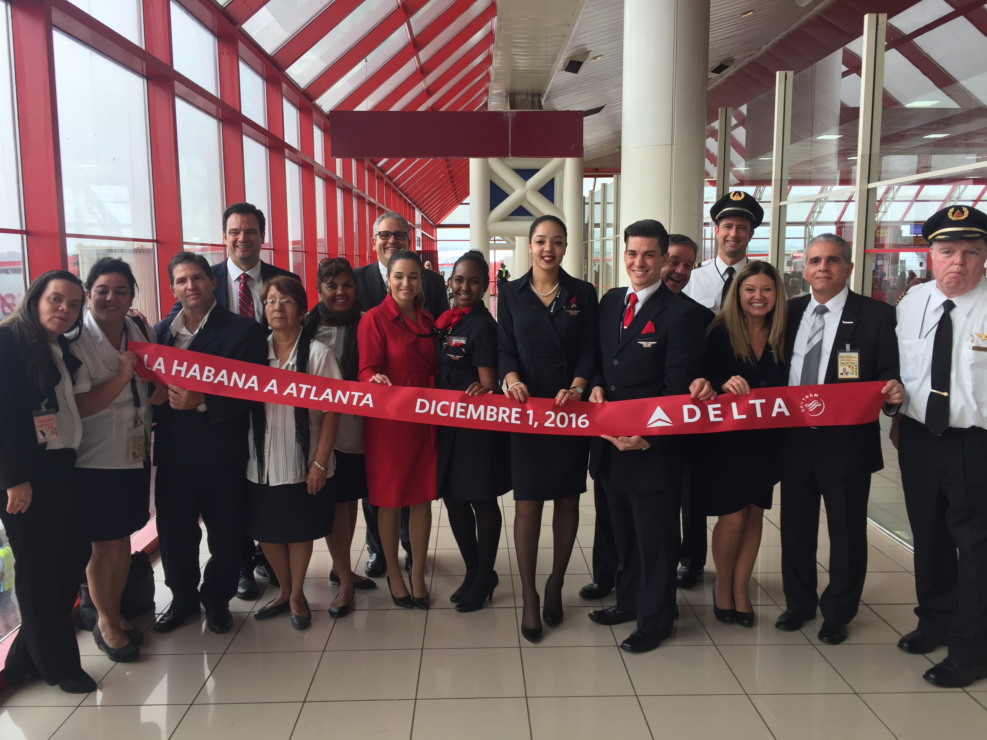 Delta returns to Cuba after 55-year hiatus